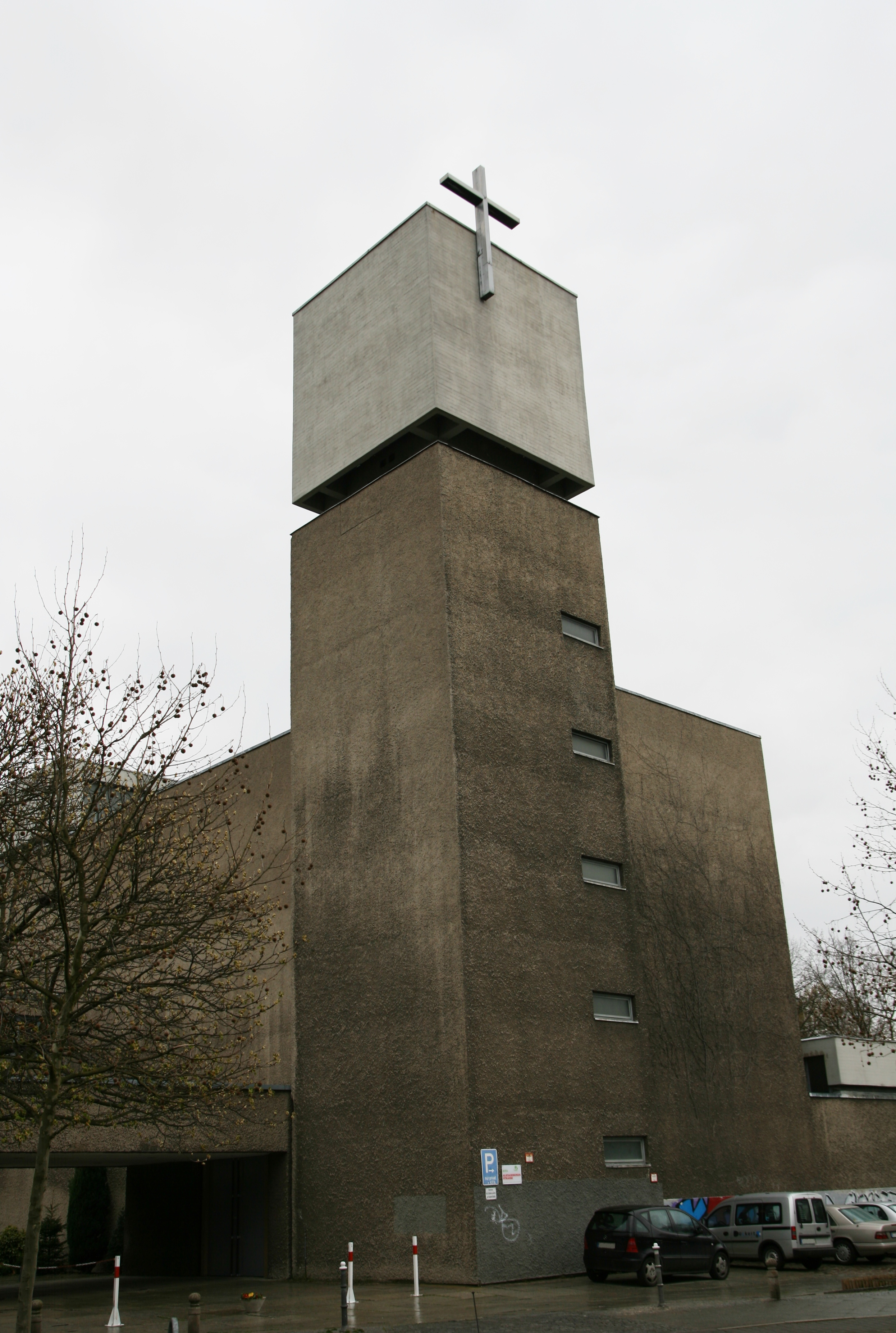 Front of the St.-Agnes-Kirche in Berlin, Germany